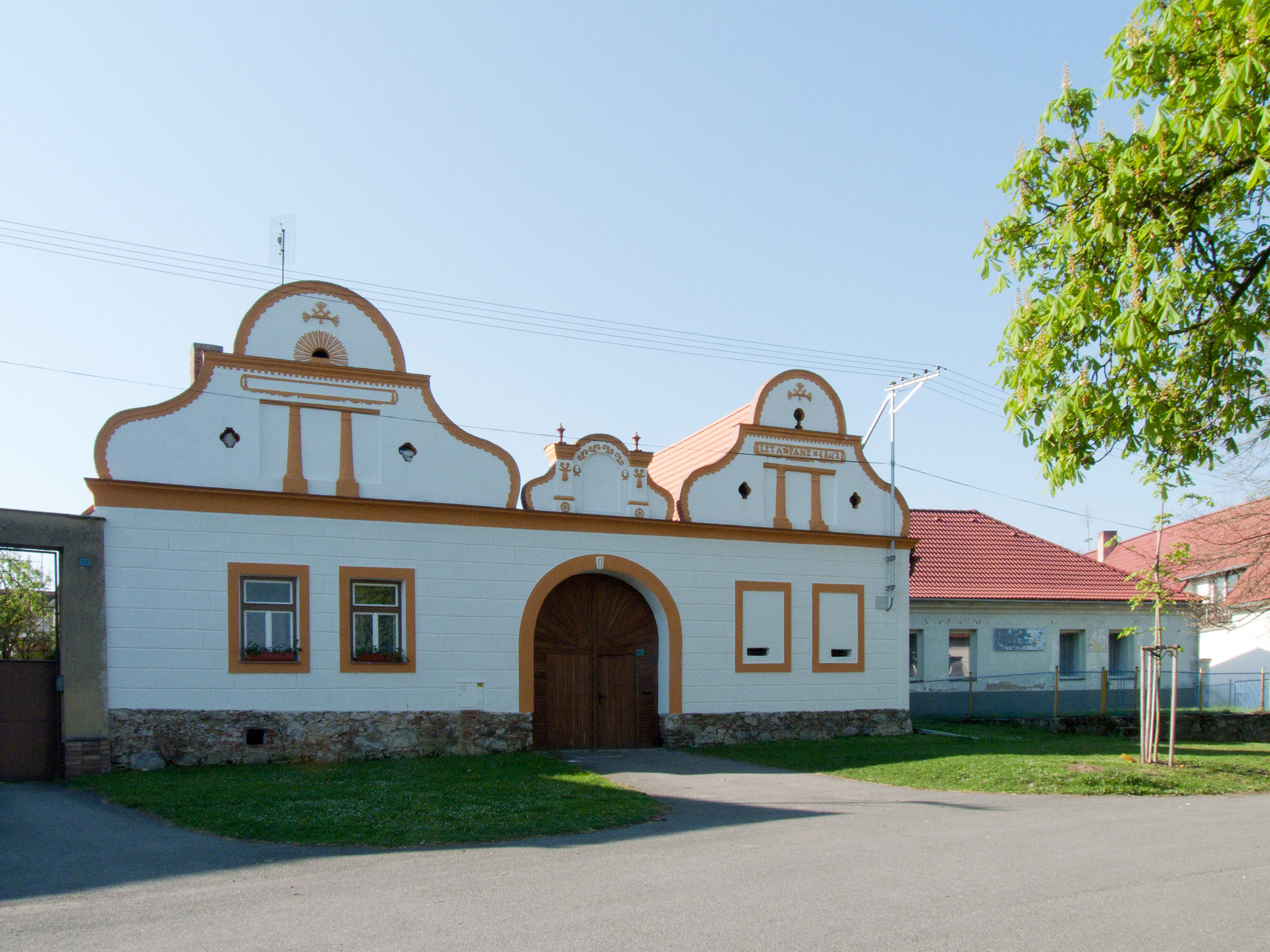 House No 35 in the village of Jinín, Strakonice District, Czech Republic.